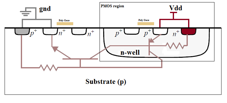 Shows the intrisic BJTs in the CMOS Technology